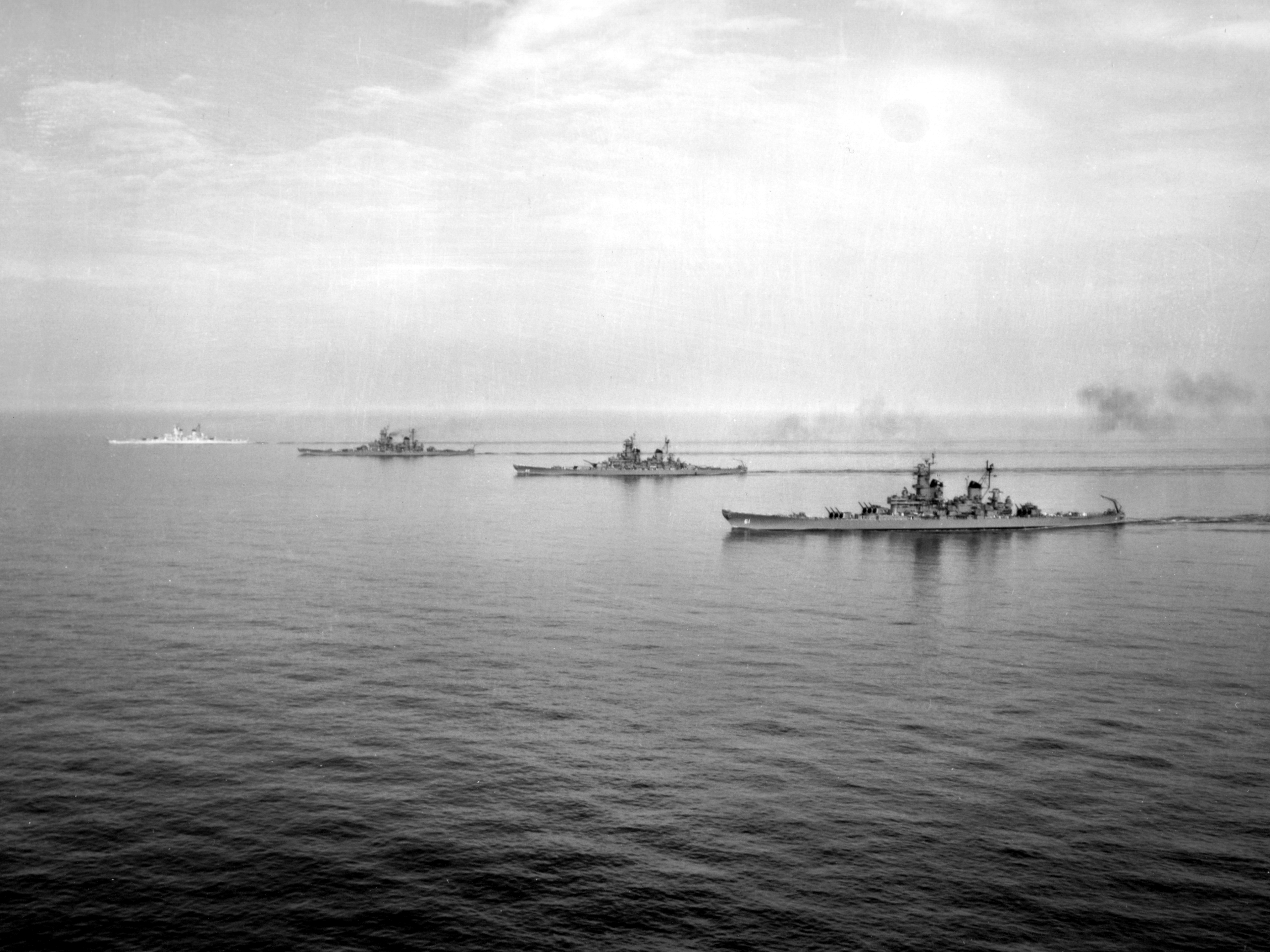 U.S. Navy Battleship Division 2 in line abreast formation, 7 June 1954, in the Virginia Capes operating area, on the only occasion that all four Iowa-class battleships were photographed operating together. The ship closest to the camera is USS Iowa (BB-61). The others are (from near to far): USS Wisconsin (BB-64); USS Missouri (BB-63) and USS New Jersey (BB-62).